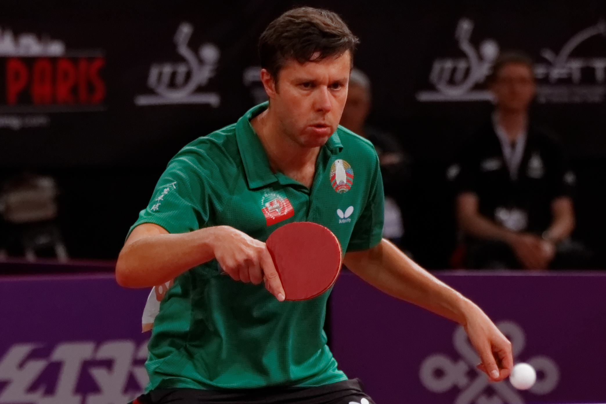 2013 World Table Tennis Championships, Paris. Men's Singles Round 4. Kenta Matsudaira vs Vladimir Samsonov.